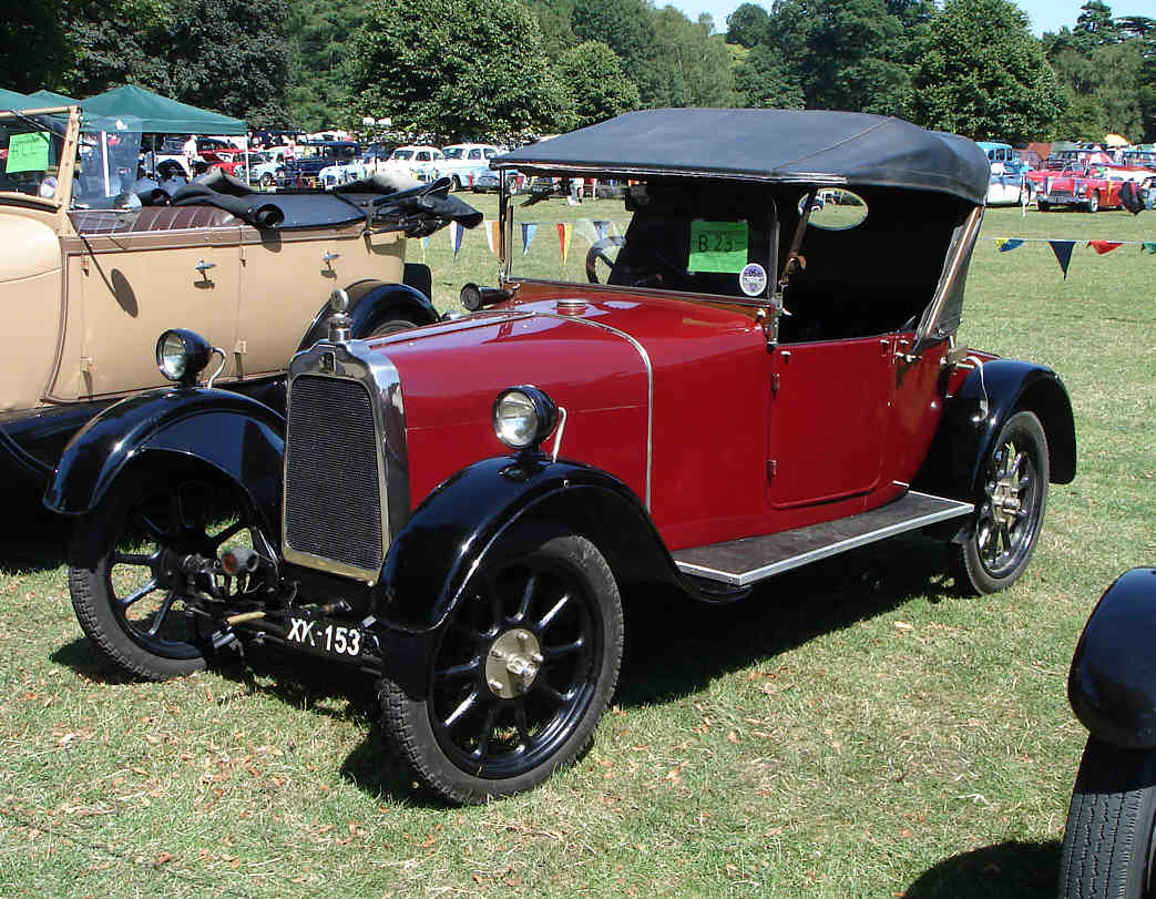 Talbot (British) 8-18 of 1923. Photographed by myself at Newby Hall, Ripon, North Yorkshire on 16 July 2006.